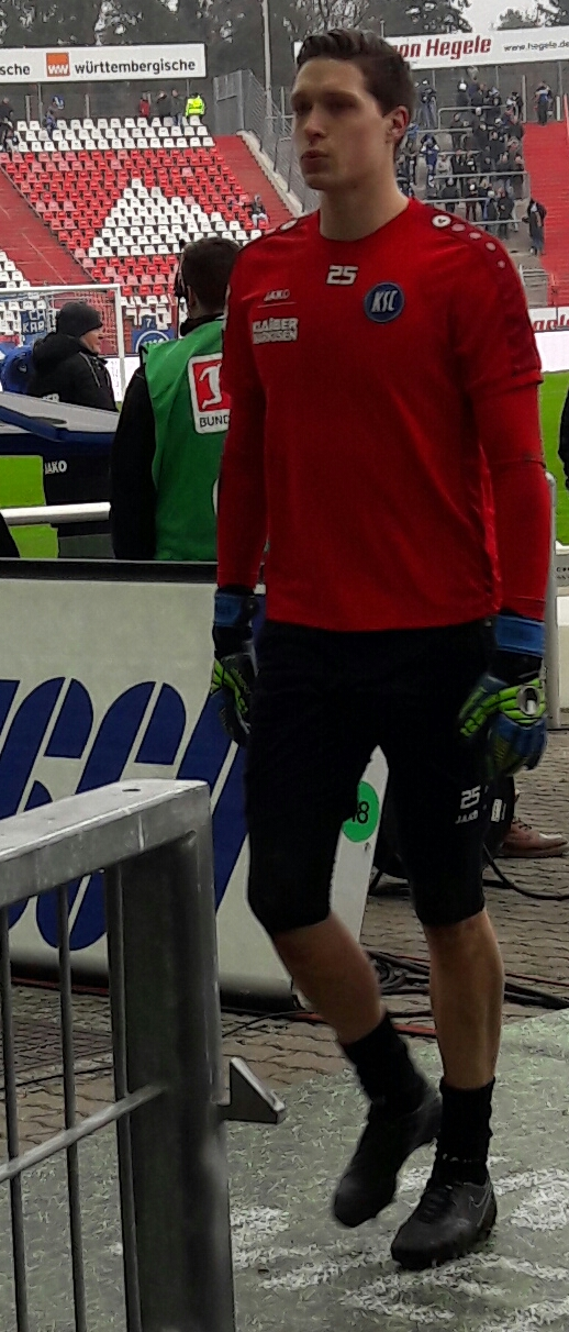 Footballplayer Florian Stritzel before the match KSC - Eintracht Braunschweig at December, the 17th 2016